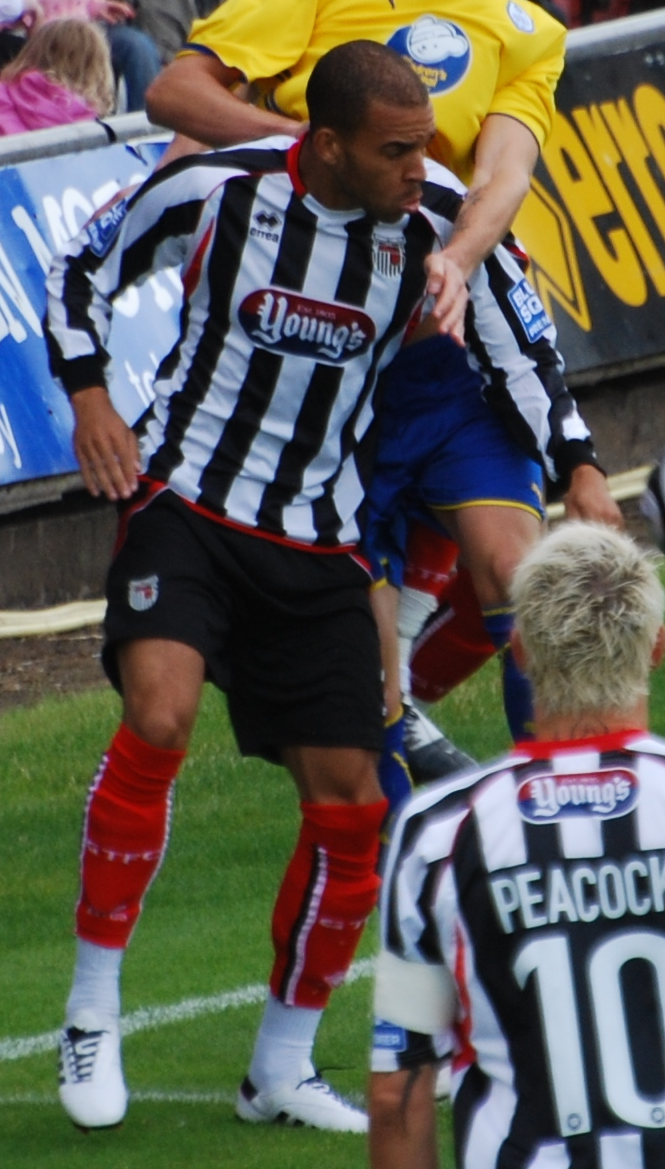 Peter Bore. Image cropped from original at flickr.